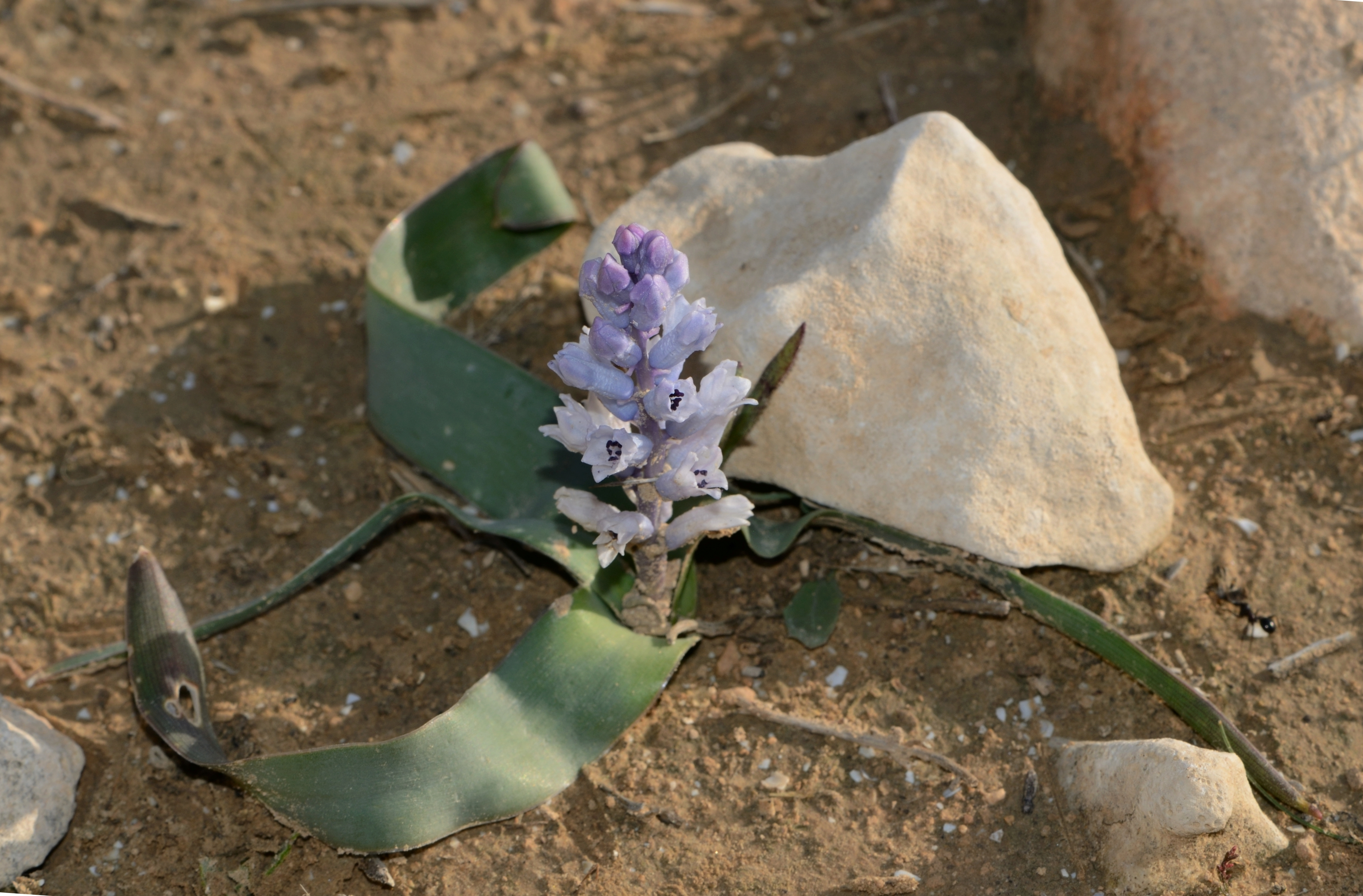 Bellevalia desertorum Eig & Feinbrun, Beer Sheba, Israel, January 25, 2012.